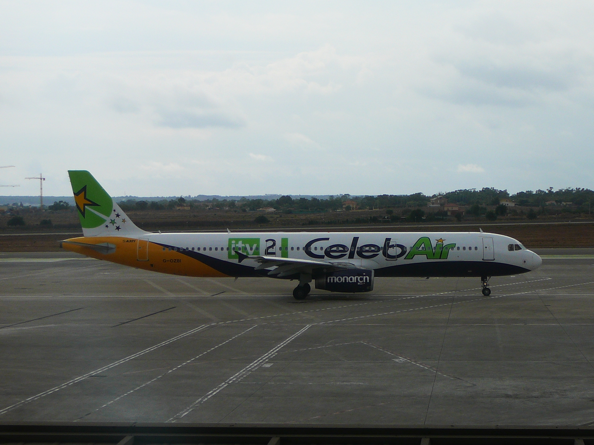 The Airbus A321 from the reality tv series CelebAir which was aired on itv2. For the show this Monarch Airline plane under the registration G-OZBI was repainted and flew amongst others to Alicante Airport which can be seen here.